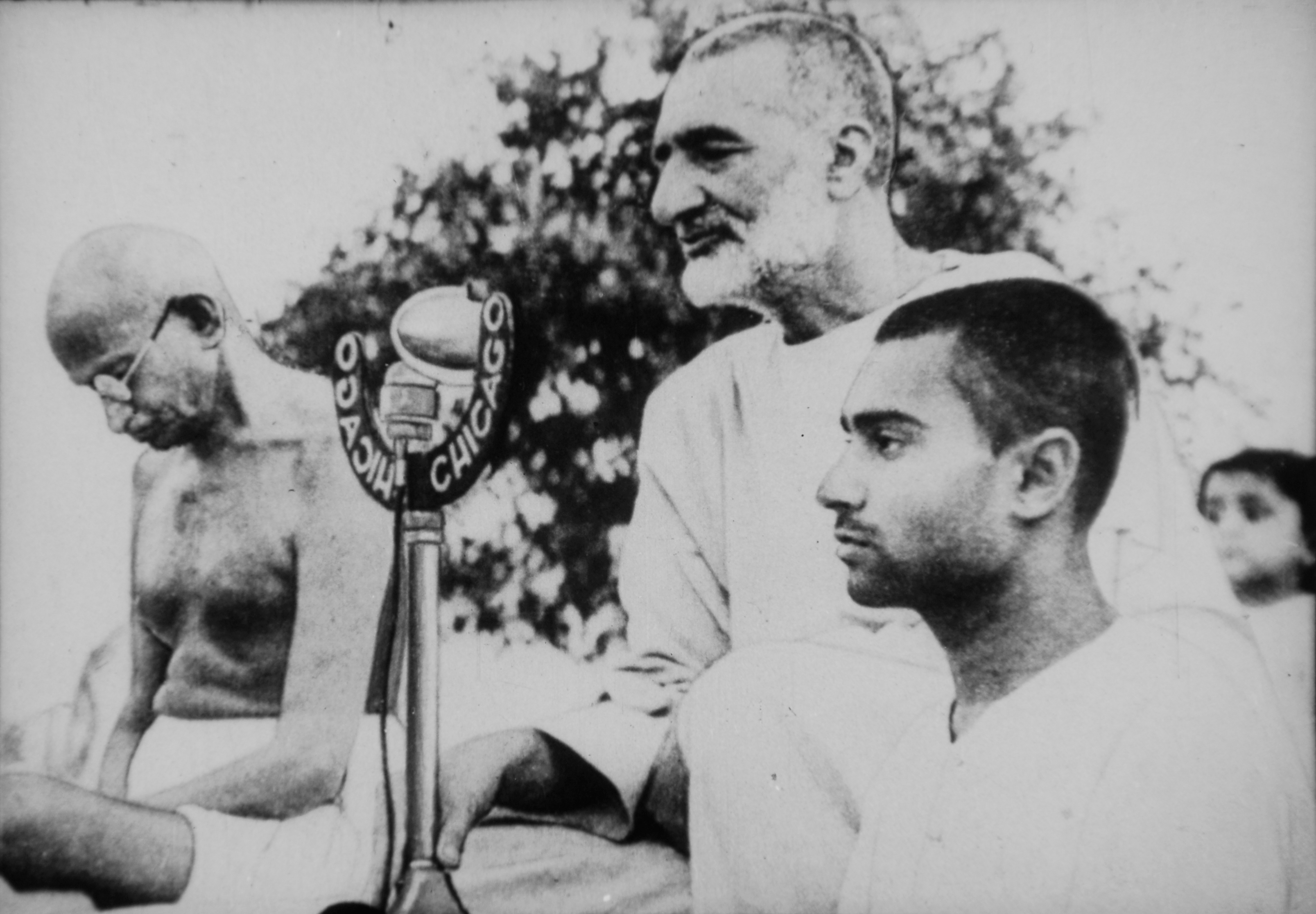 Cropped version of File:Gandhi and Abdul Ghaffar Khan during prayer.jpg. Plus, I increased the brightness and contrast a bit.